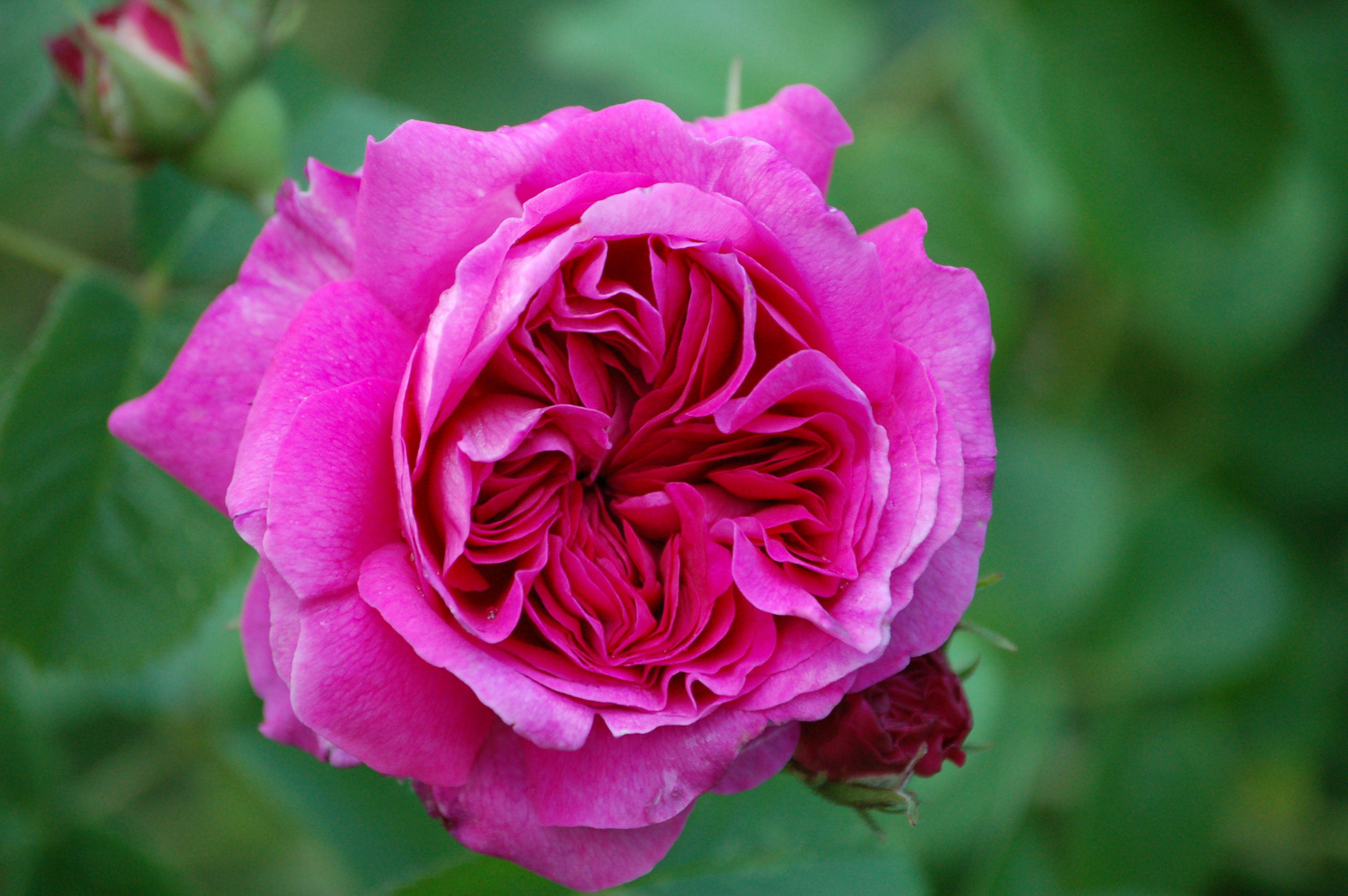 Rosa 'York and Lancaster'